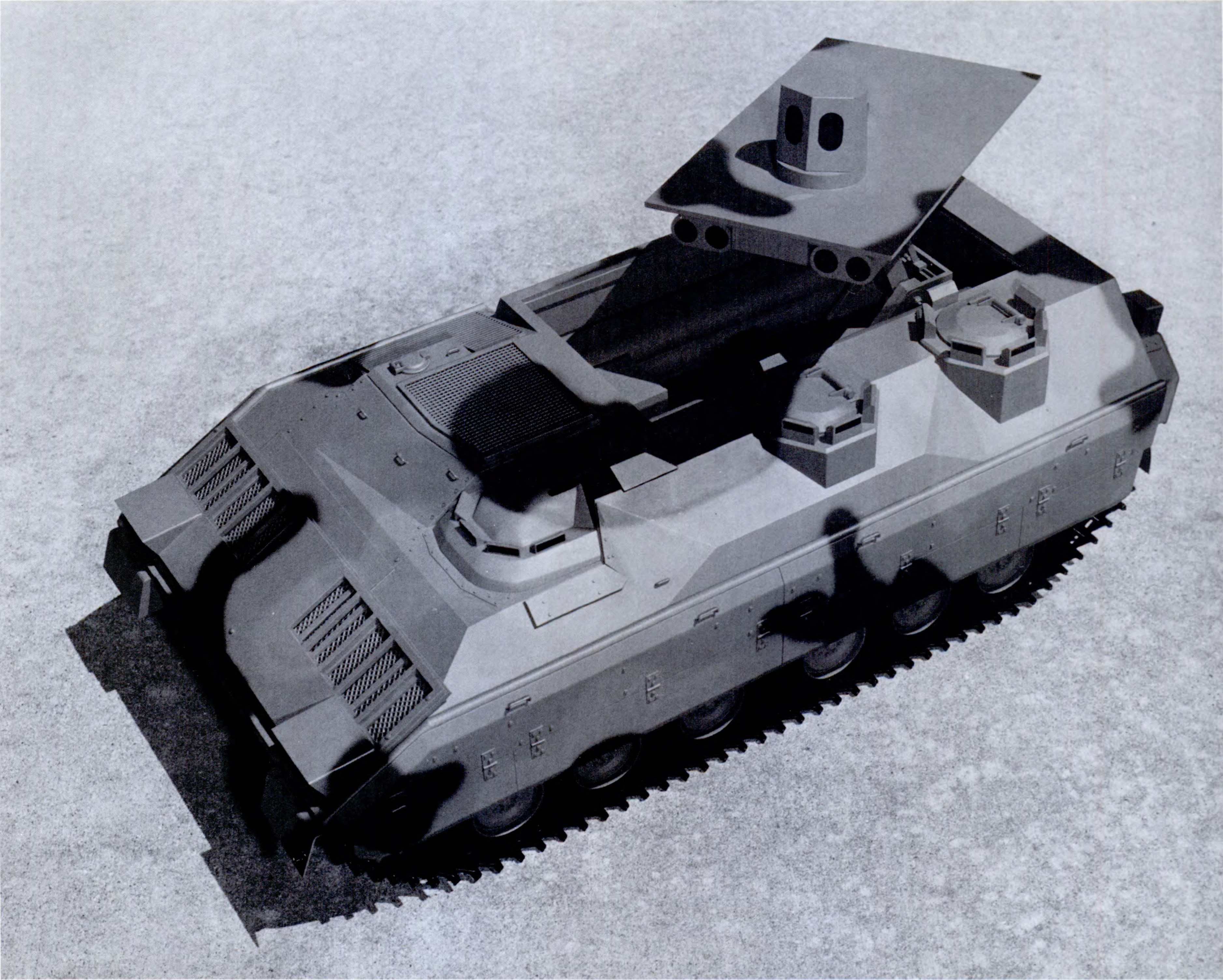 Vought LOSAT combat vehicle with launcher on top of it (previously known as KEM till 1989, redesignated as LOSAT in 1990)